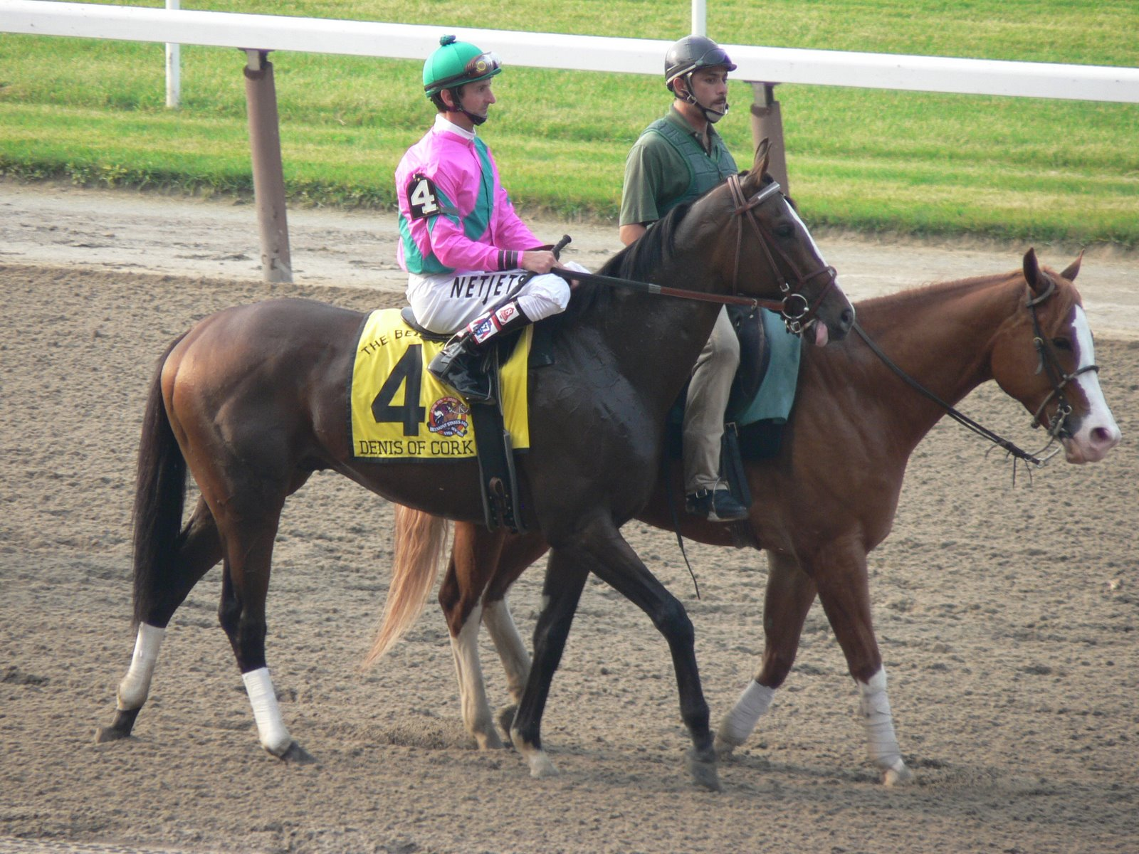 2008 Belmont Stakes contender, Denis of Cork.